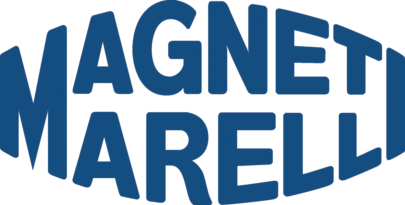 Logo of Magneti Marelli